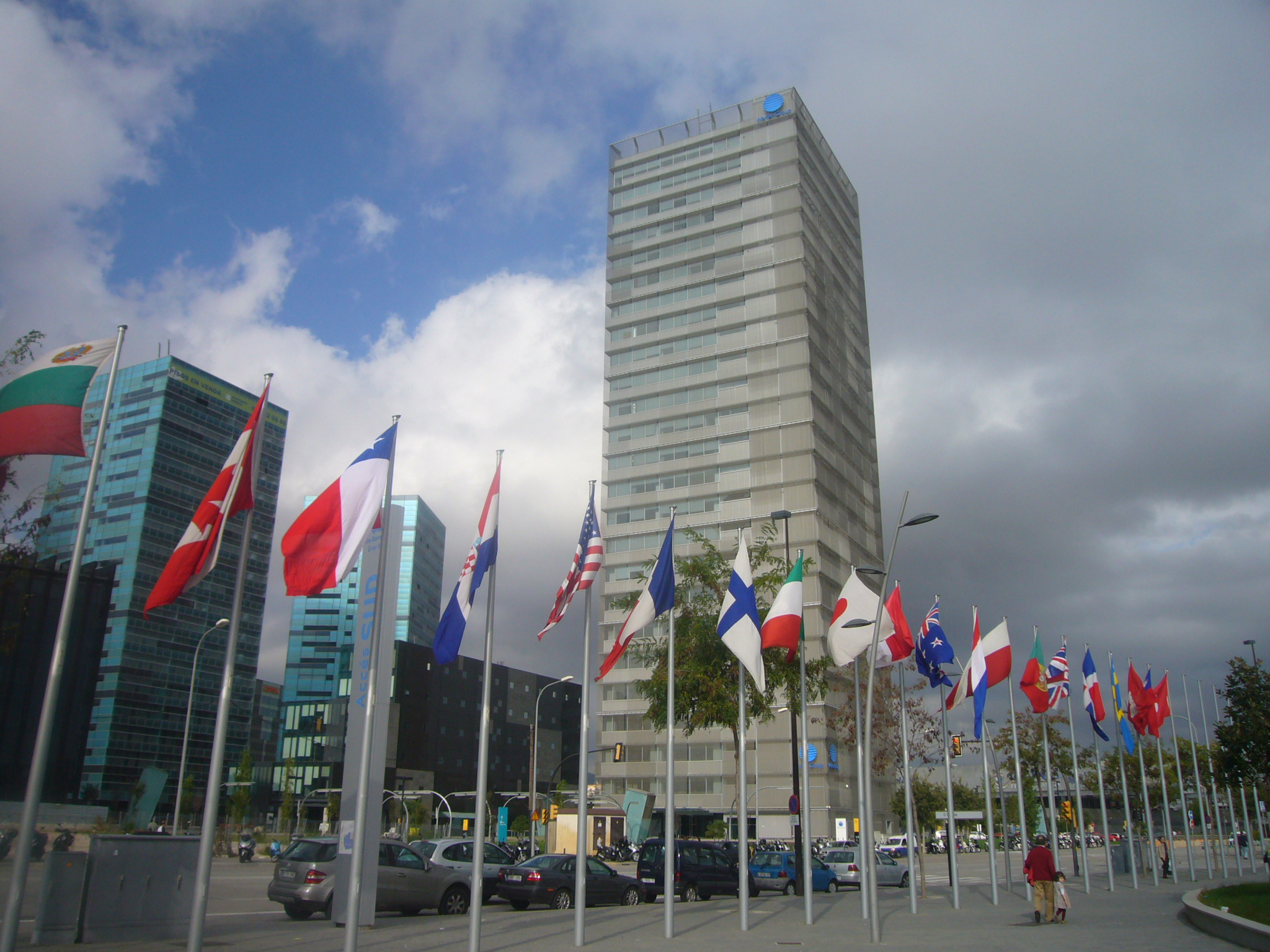 Torre Werfen and flags of the Fira (L'Hospitalet de Llobregat, Catalonia, Spain).